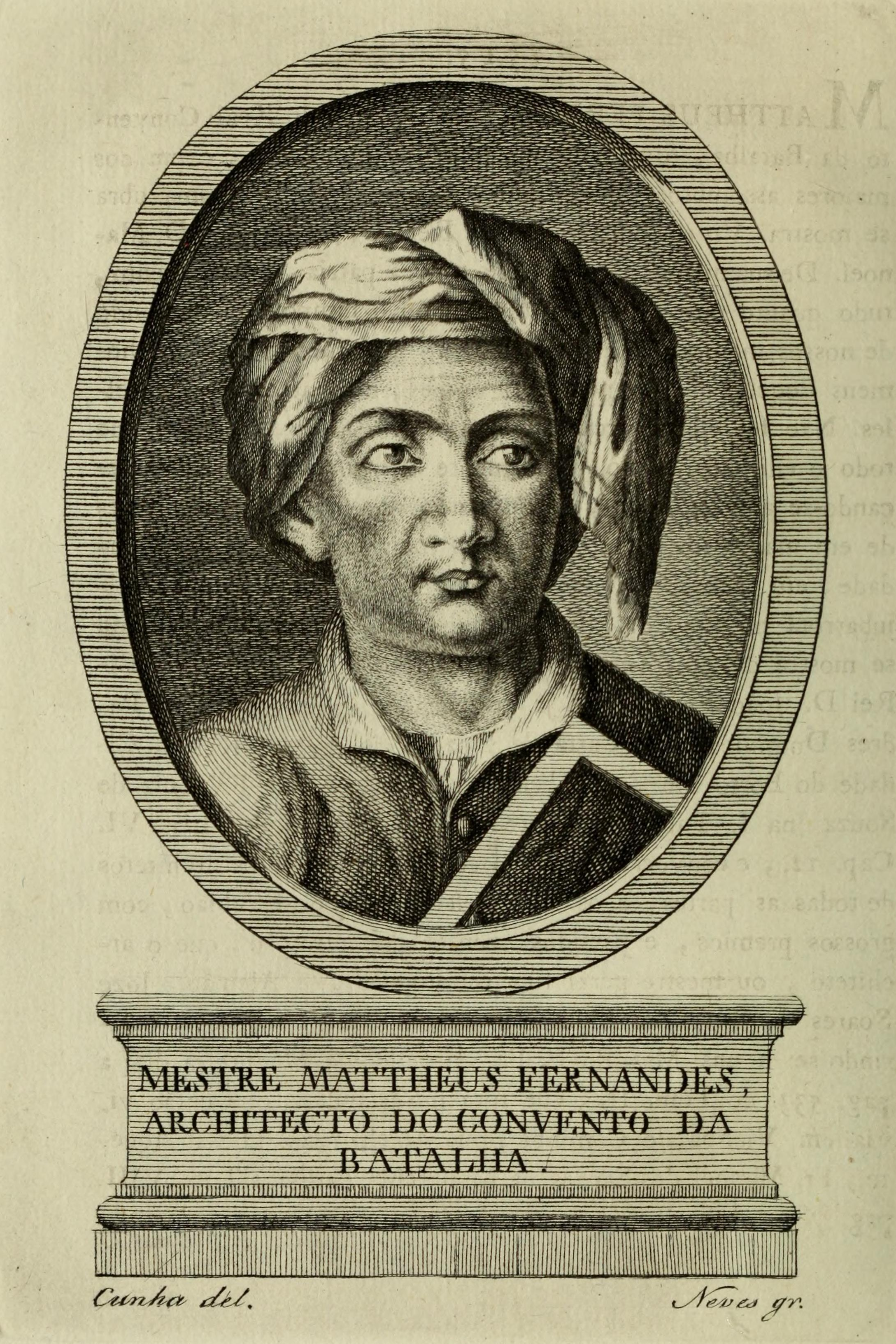 Mateus Fernandes (?-14??-1515), one of the architects of the Monastery of Batalha, Portugal.